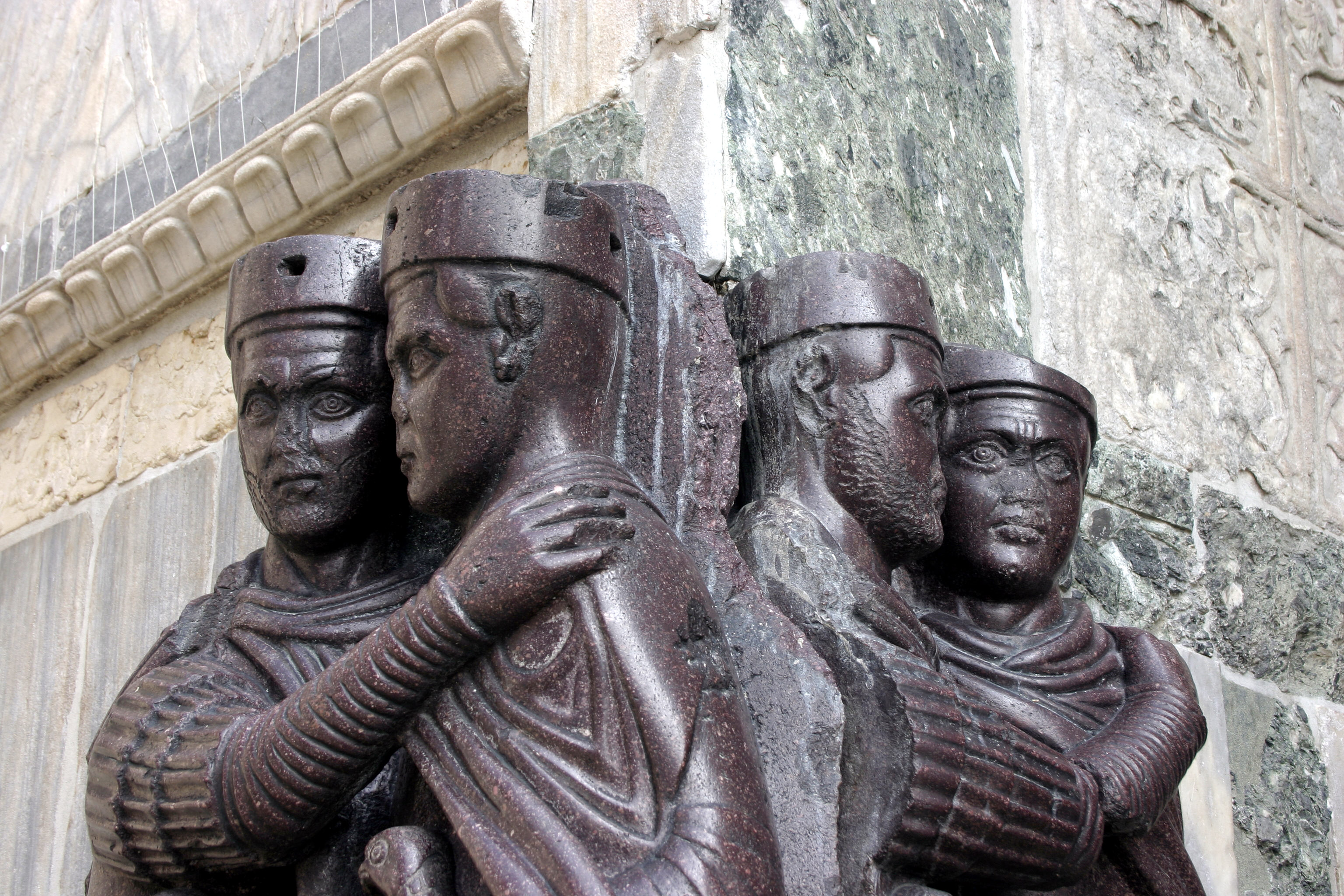 The tetrarchs (from the Greek words for "Four rules") were the four co-rulers that governed the Roman Empire as long as Diocletian's reform lasted. Here they were portraied embracing, in sign of harmony, in a porphyry sculpture dating from the 4th century, produced in Asia Minor, today on a corner of Saint Mark's in Venice, next to the "Porta della Carta".